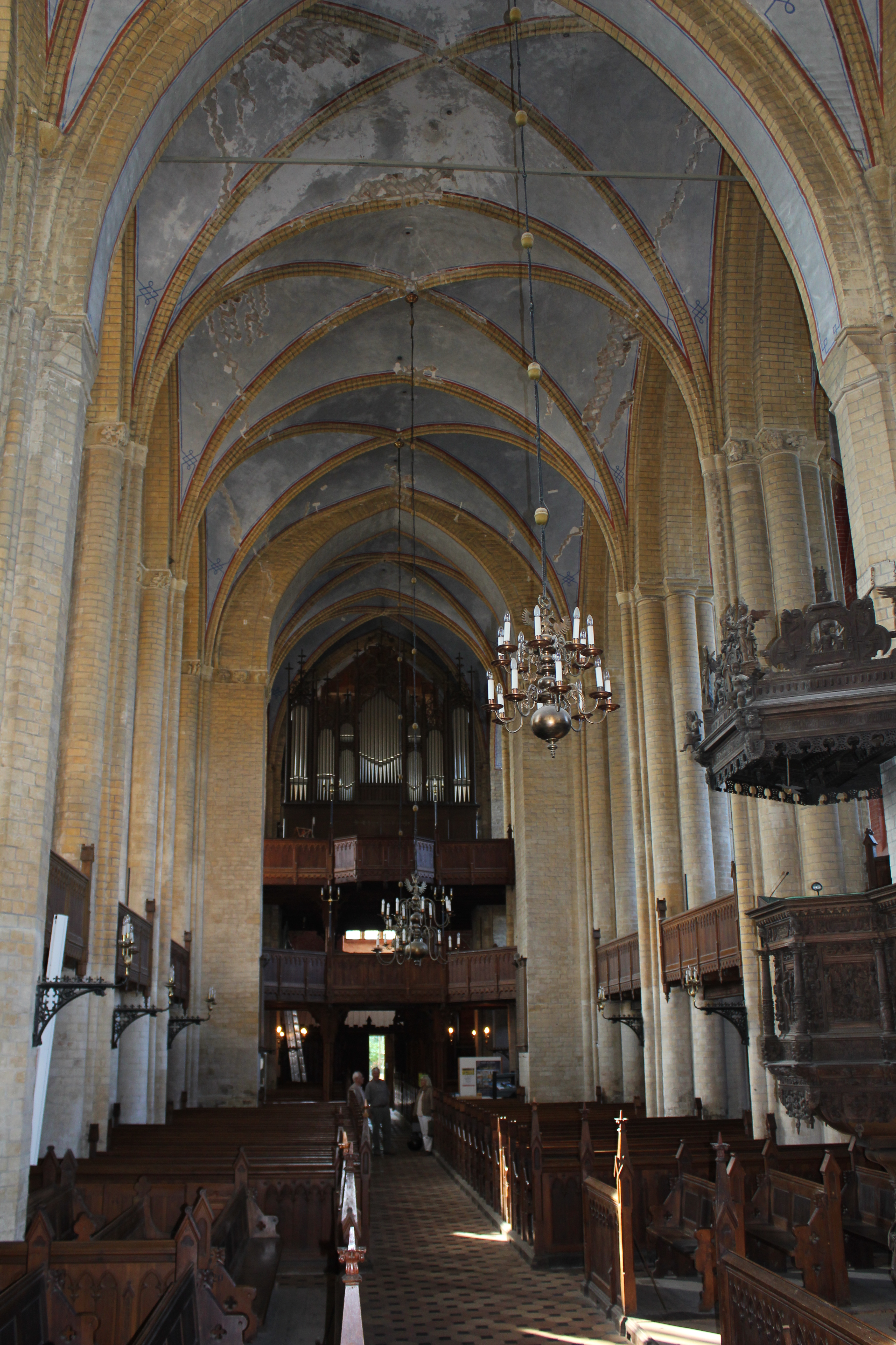 The Stiftskirche Bützow